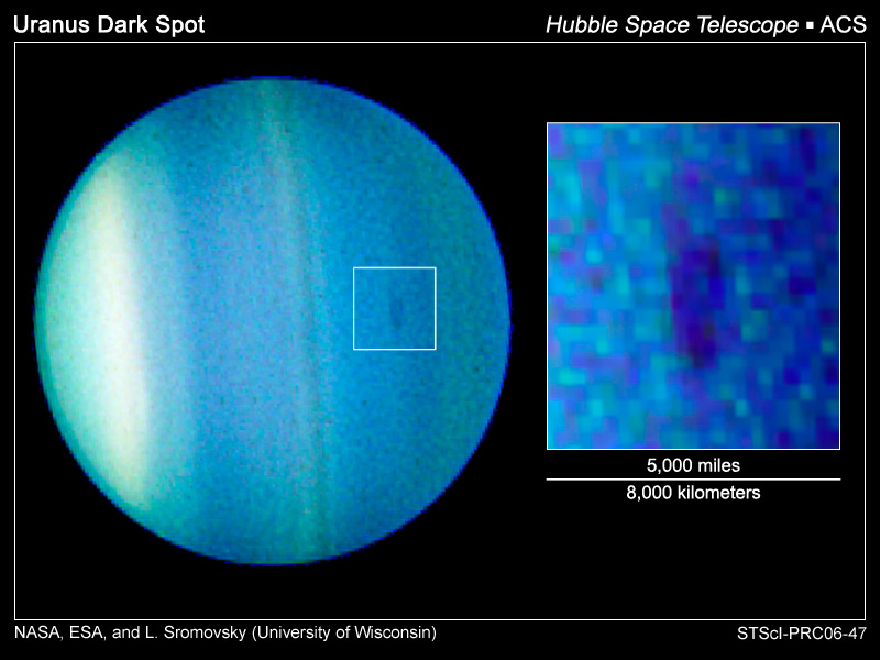 The first dark spot on Uranus ever observed. The image is obtained by ACS on HST in 2006. Image was downloaded from [1] (Credit: NASA, ESA, L. Sromovsky and P. Fry (University of Wisconsin), H. Hammel (Space Science Institute), and K. Rages (SETI Institute)).